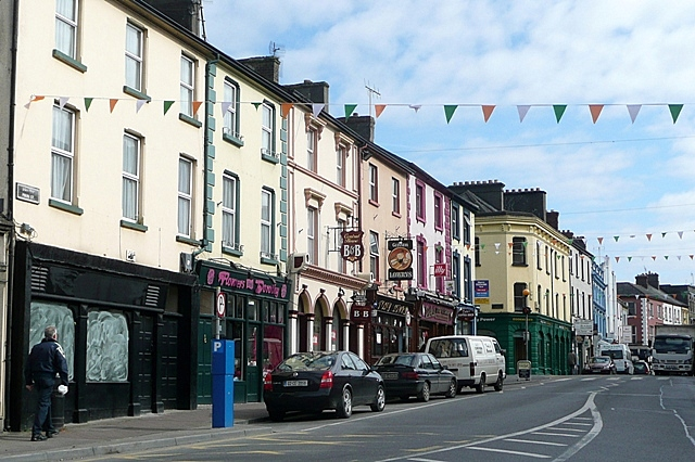 Main Street, Tiobraid Arann (Tipperary)